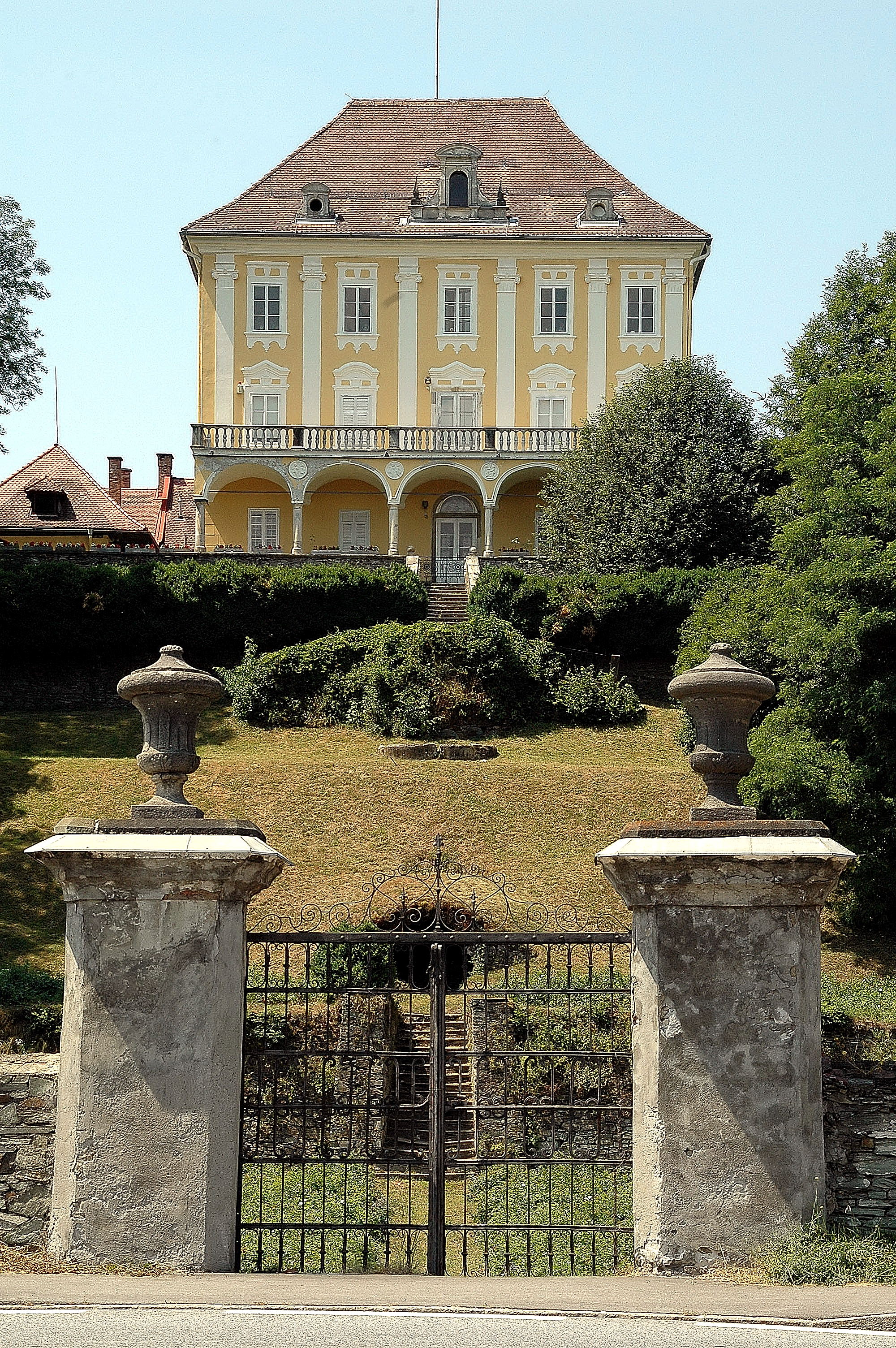 Castle “Annabichl” in the 9th district “Annabichl” of the Carinthian capital Klagenfurt, the capital of the state Carinthia, Austria